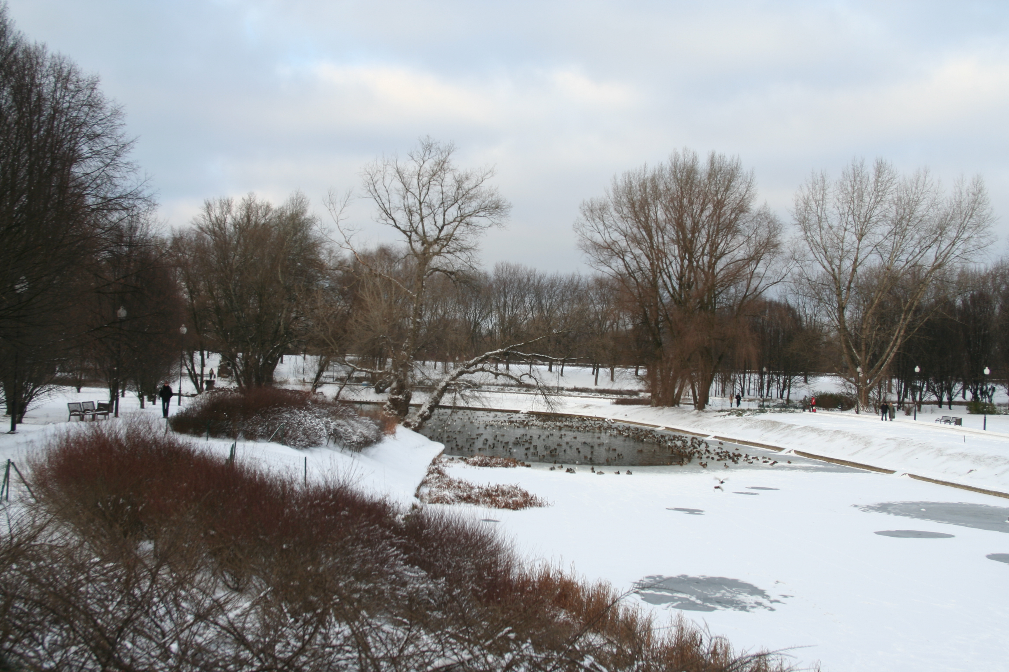 Winter in Kepa Potocka park (Warsaw, Poland)